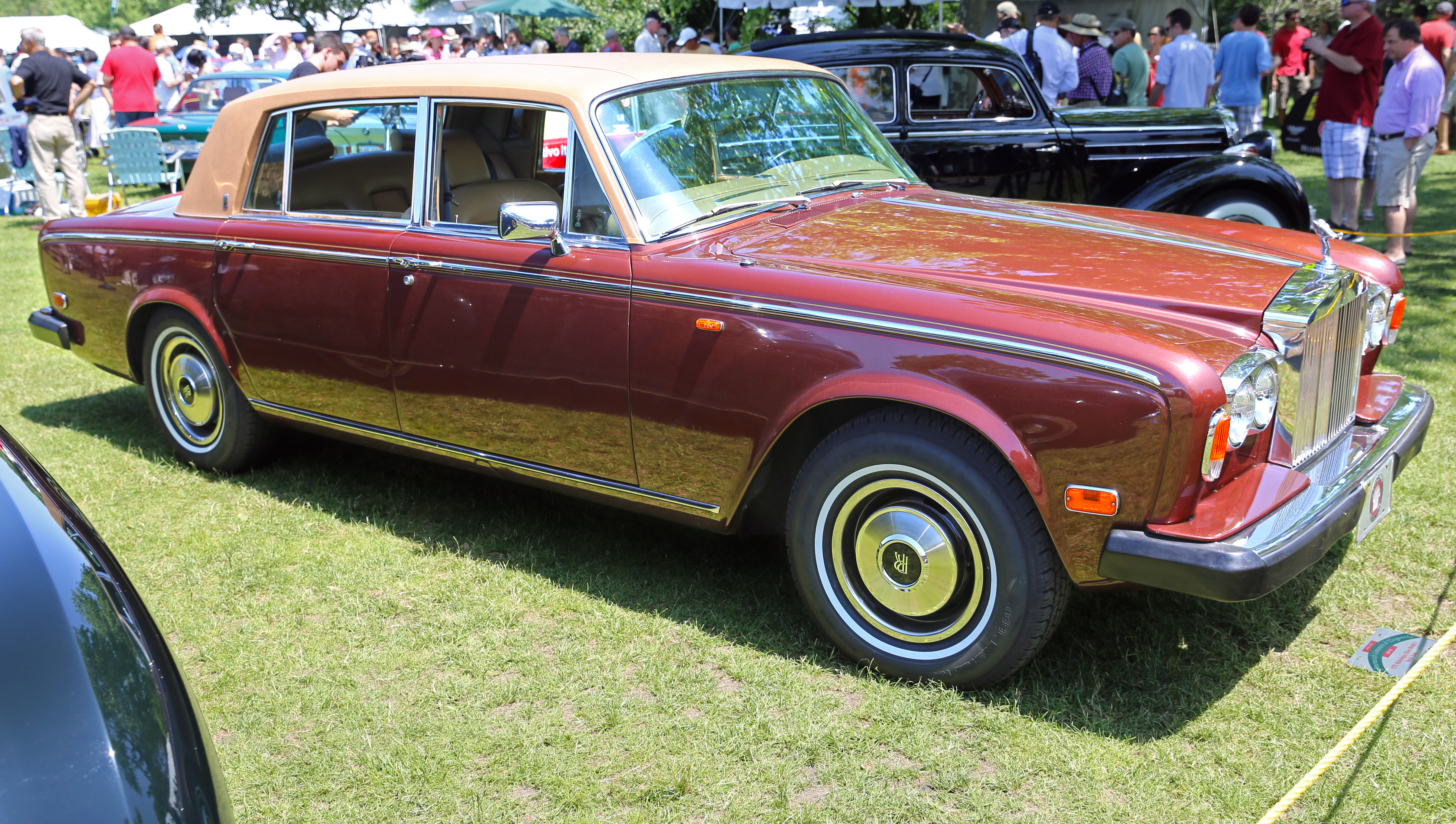 1979 Rolls-Royce Silver Wraith II, seen at the 2013 Greenwich Concours d'Elegance.